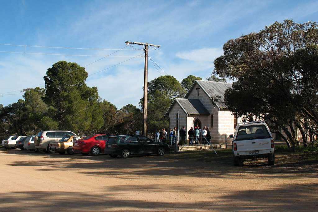 Photo of Parrakie Lutheran Church